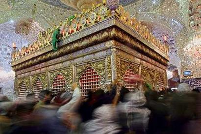 Sepulcher of Al-Abbas ibn Ali